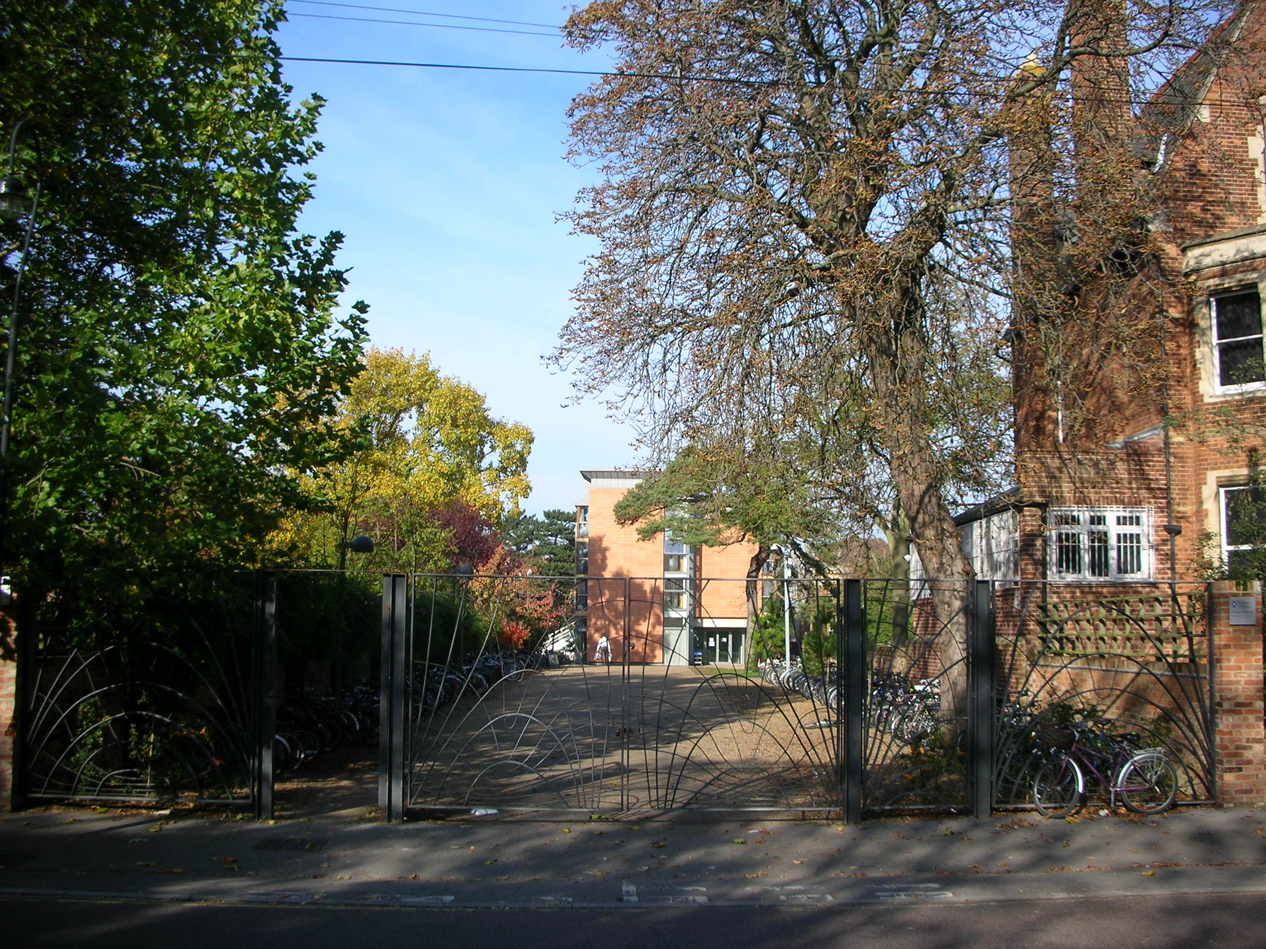 The gates at the rear of St Hugh's College, on Canterbury Road, Oxford, England. Photograph by Jonathan Bowen.